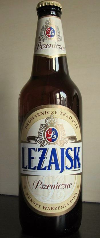 Leżajsk Pszeniczne wheat beer - 0,5 L bottle from 2011